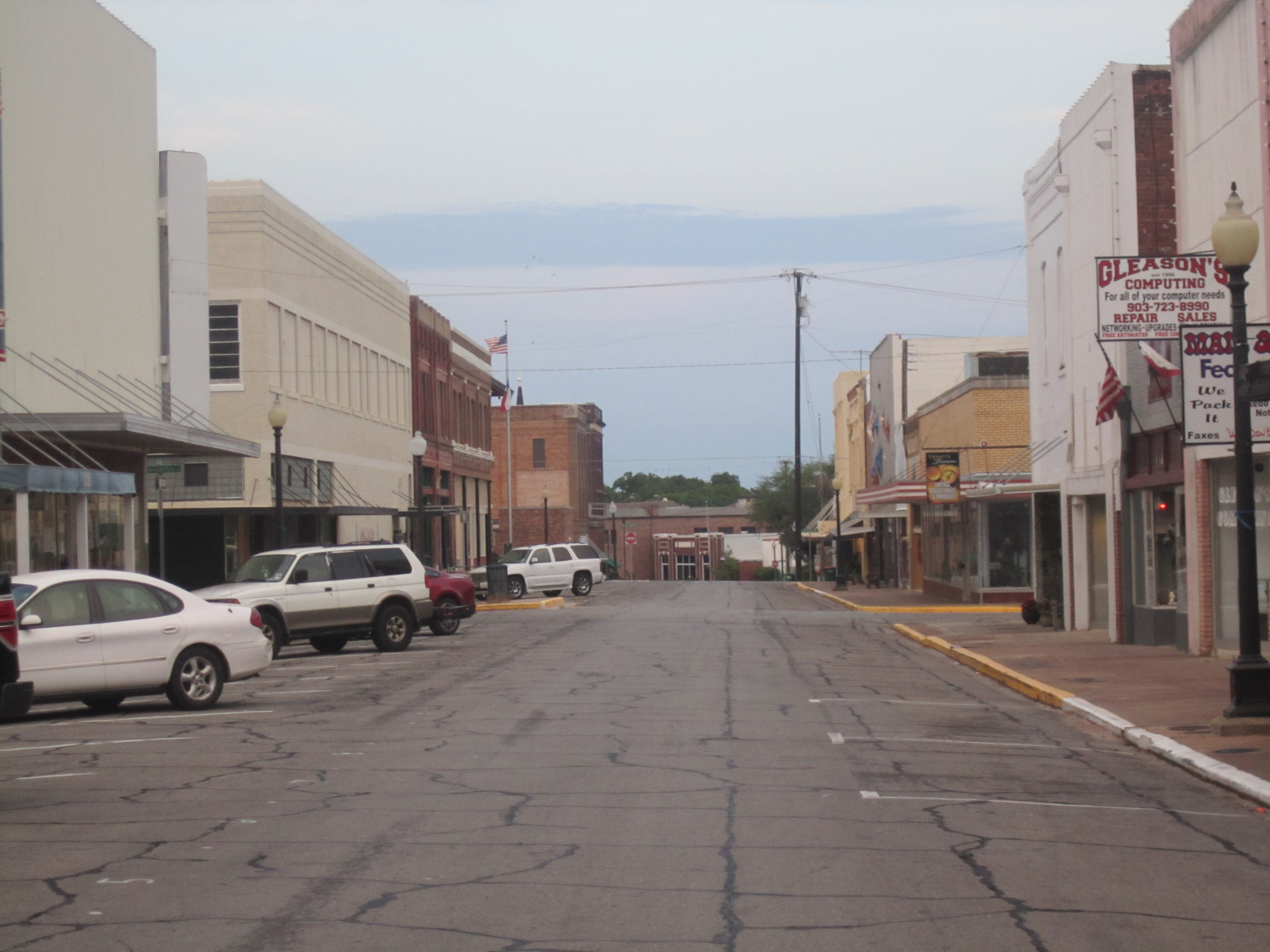 I took photo with Canon camera of downtown Palestine, TX.